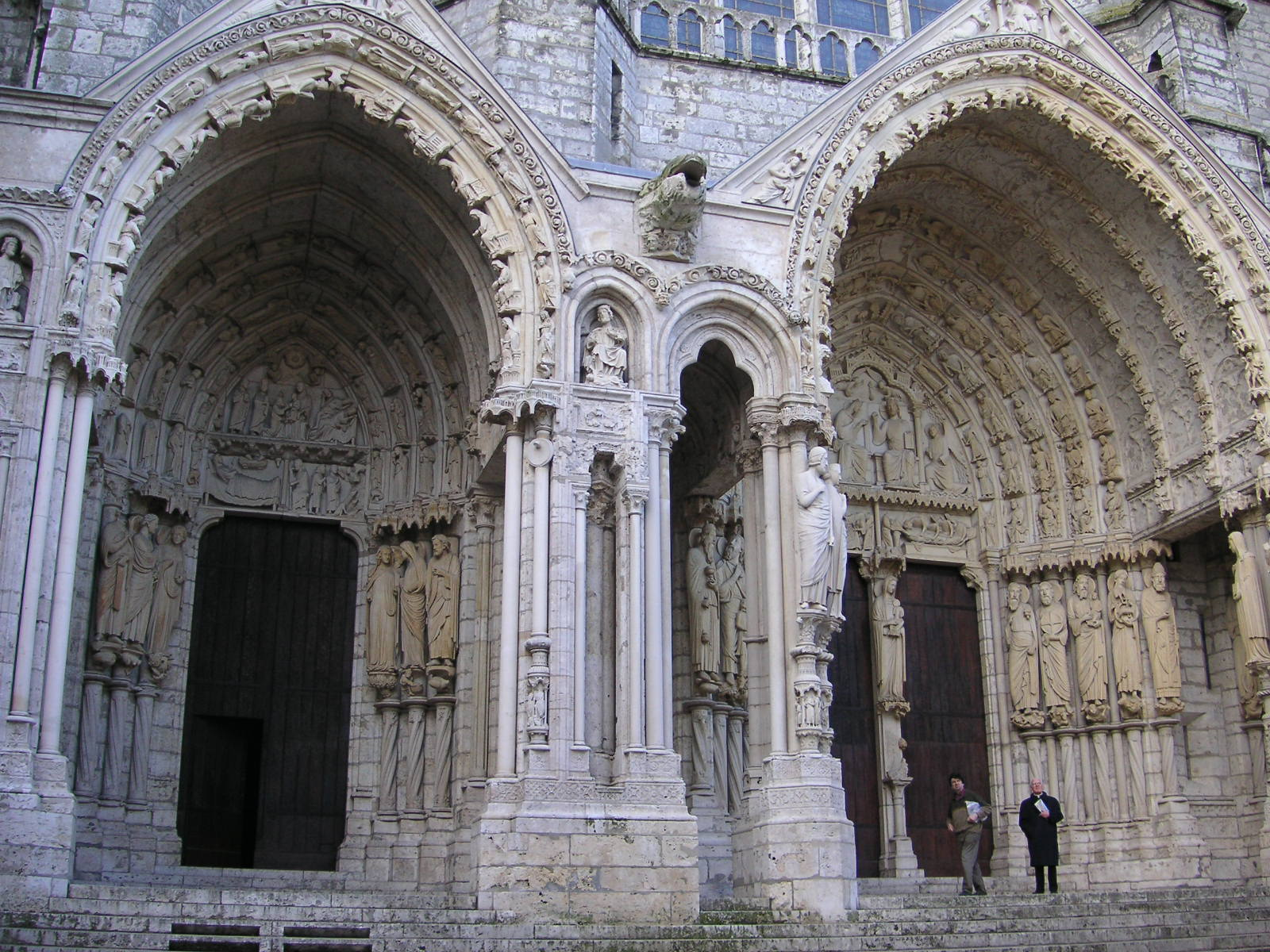 Chartres Cathedral, North Porch of the Blessed Virgin Mary.